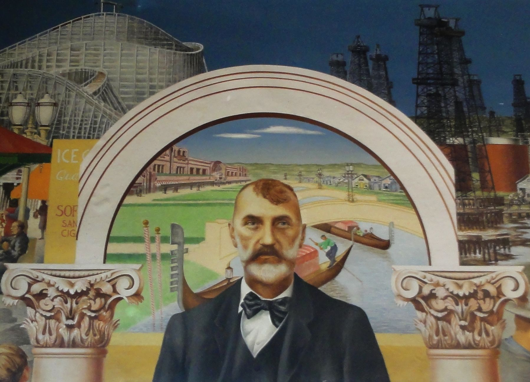 Detail of mural by Edward Biberman in the Venice post office depicting Abbot Kinney. More information at The Living New Deal